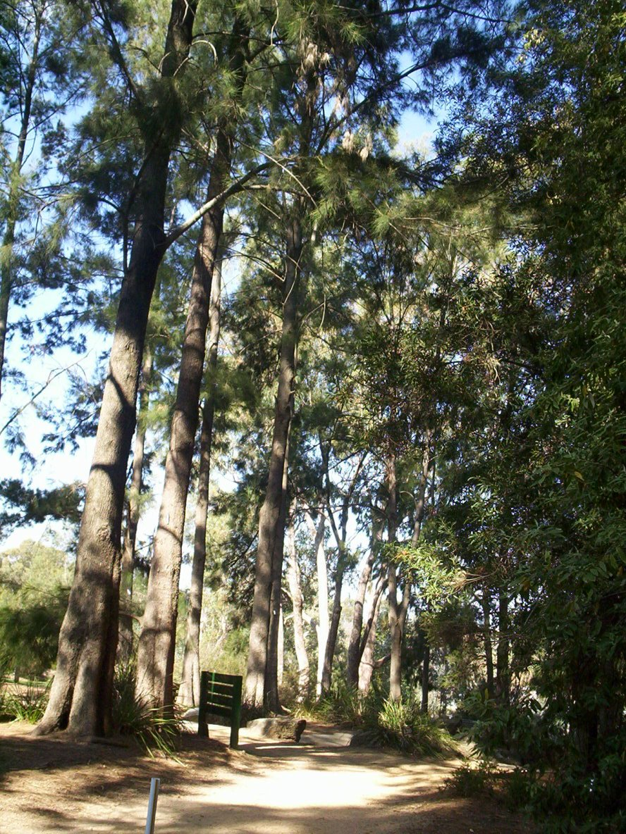 Trees at the Australian National Botanic gardens, I took the photo, March 2005